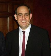 Photo of then Northern Ireland Office Minister David Hanson taken in the Long Gallery, Parliament Buildings Belfast.